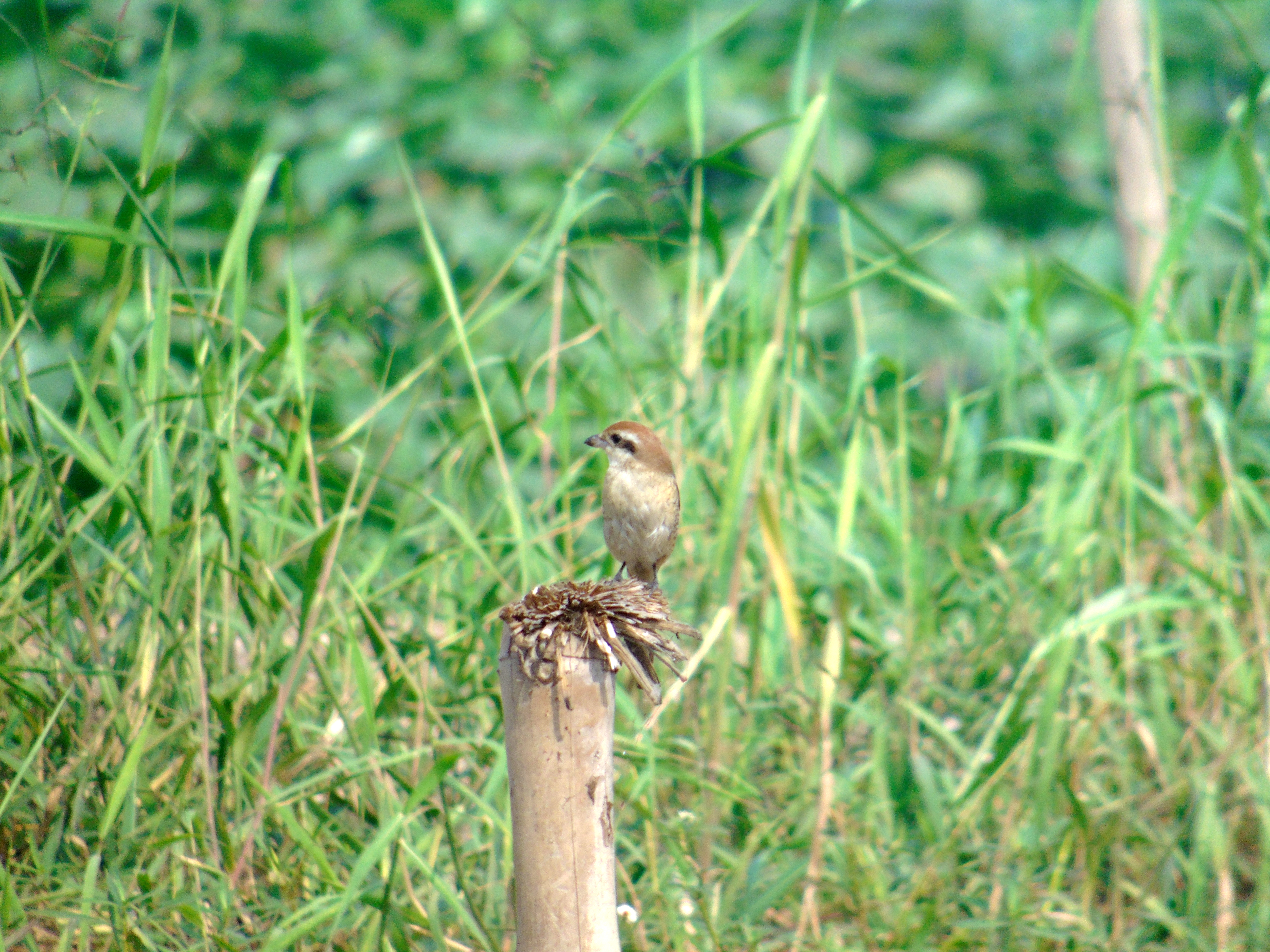 BROWN SHRIKE AT SANTRAGACCHI JHEEL